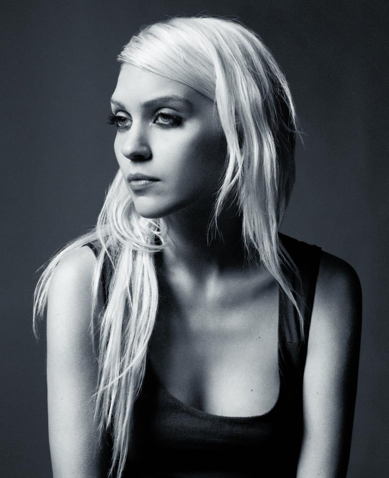 Photograph of Katie Gallagher taken by photographer Petteri Lamulaen:Katie Gallagher (fashion designer)